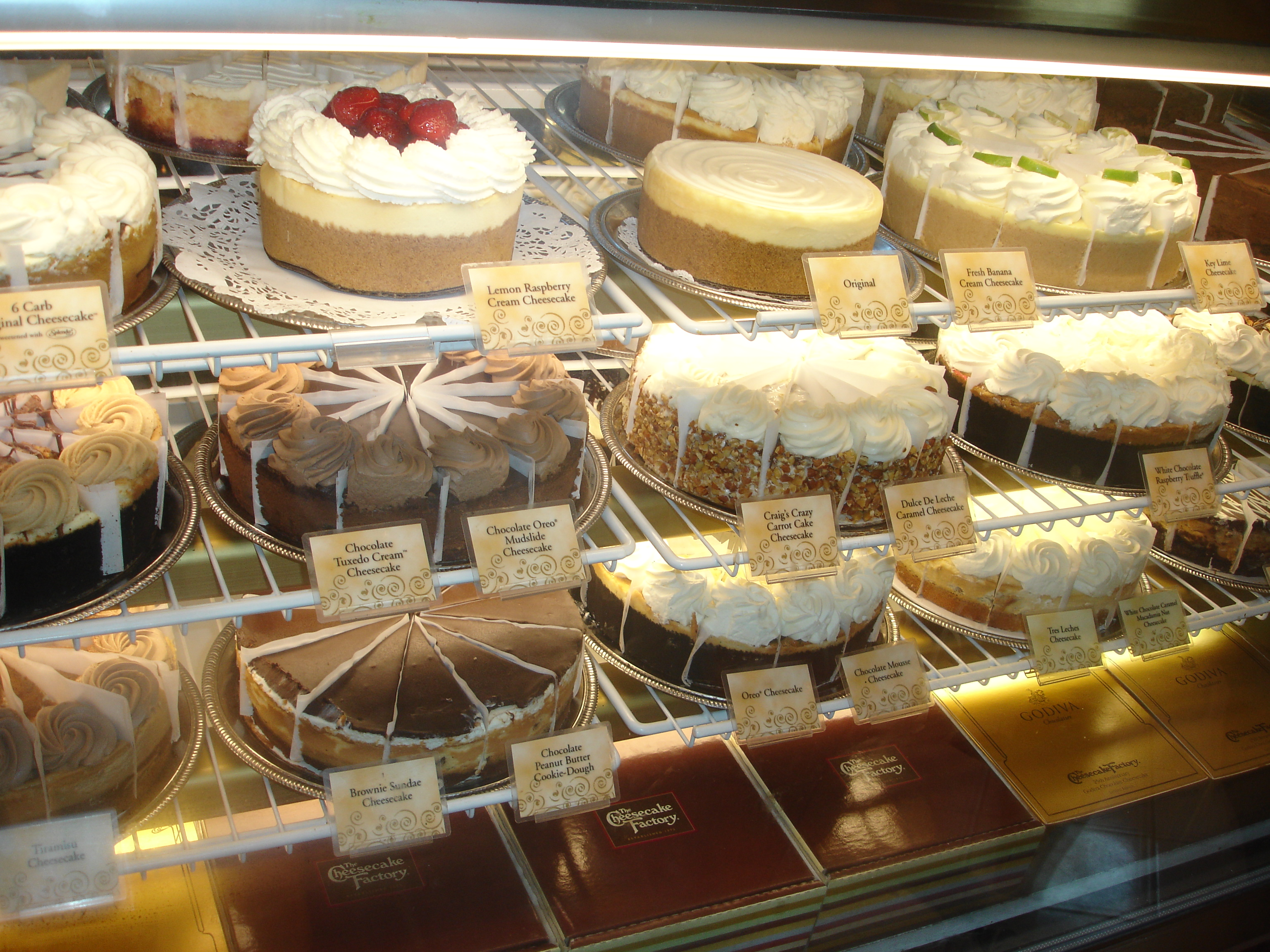 Several cheesecakes in a display case at The Cheesecake Factory in Naples, Florida.